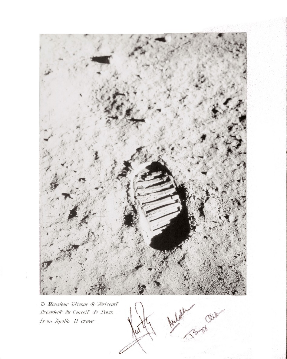 Dédicace du premier pas sur la Lune